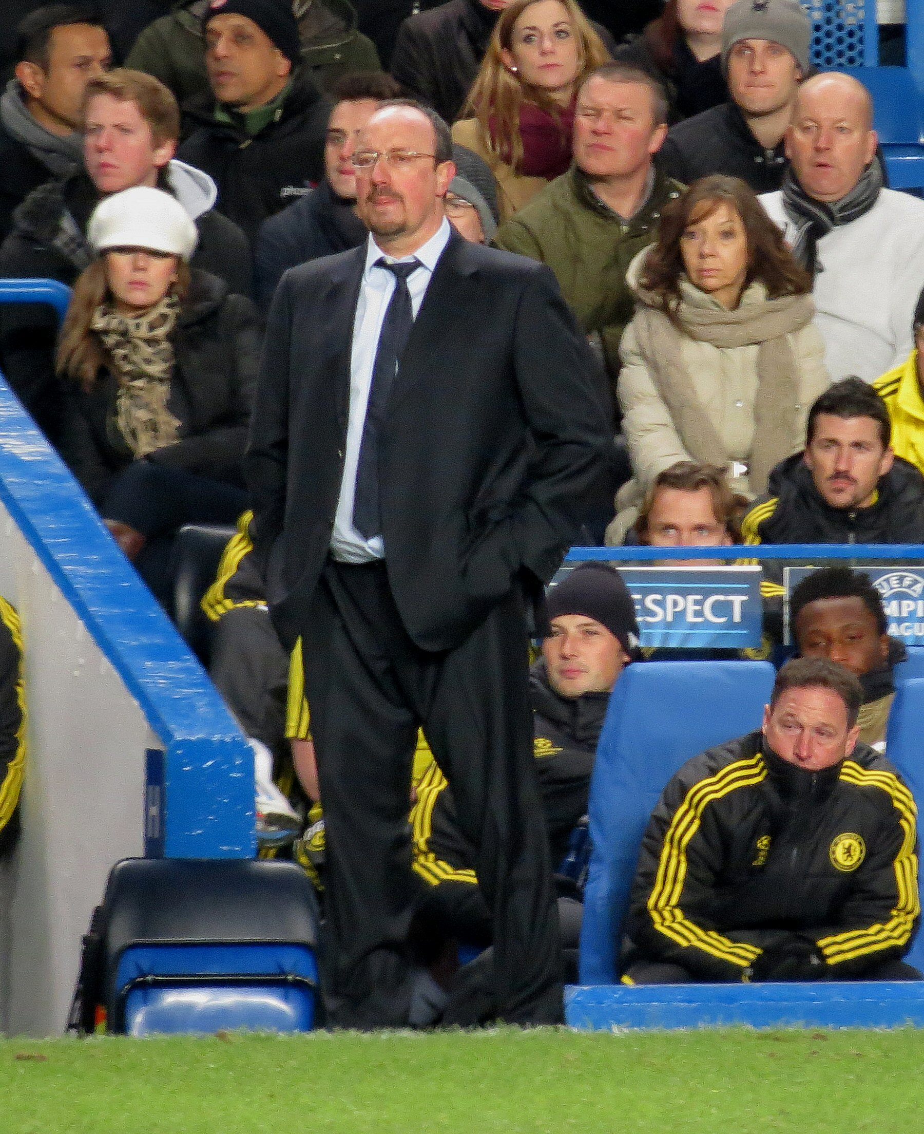 Rafael Benitez (Chelsea v Nordsjaelland ) December 2012